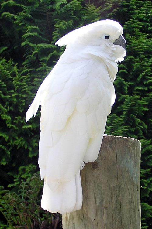 Cacatua alba (Umbrella Cockatoo also know at White Cockatoo) at Combe Martin Wildlife and Dinosaur Park, North Devon, England. Taken by Adrian Pingstone in July 2004 and released to the public domain. This work has been released into the public domain by its author, Arpingstone at the Wikipedia project. This applies worldwide. In case this is not legally possible: Arpingstone grants anyone the right to use this work for any purpose, without any conditions, unless such conditions are required by law.